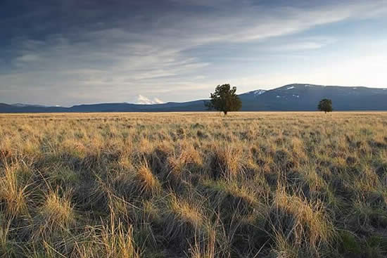 Western junipers give perspective to Mount Shasta. Intermediate wheatgrass is in the foreground although the primary native grass is Great Basin wild rye. Butte Valley National Grassland, California.